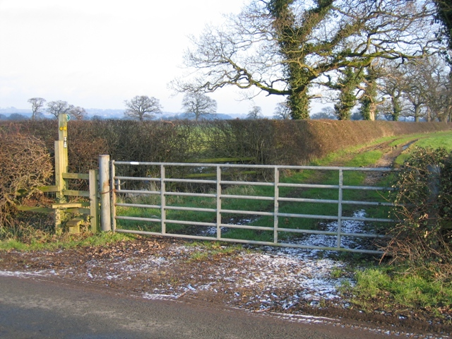 Eddisbury Way near Hoofield From Hoofield Lane the Eddisbury Way heads out to Hoofield Covert before turning south west and meeting up with the lane again at Huxley.